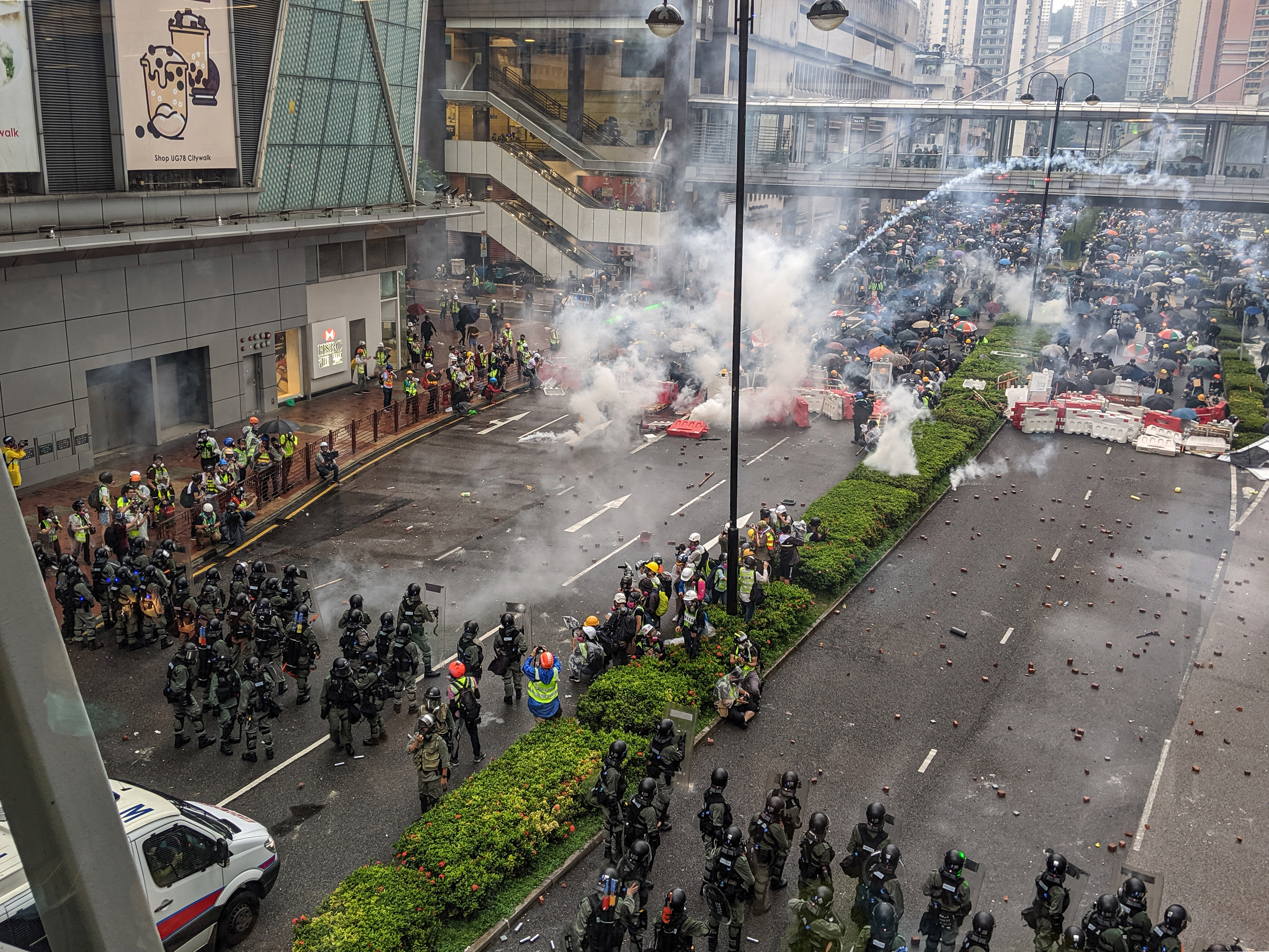 A part of the 2019 Hong Kong anti-extradition bill protests, the Tsuen Wan March took place on August 25, 2019.